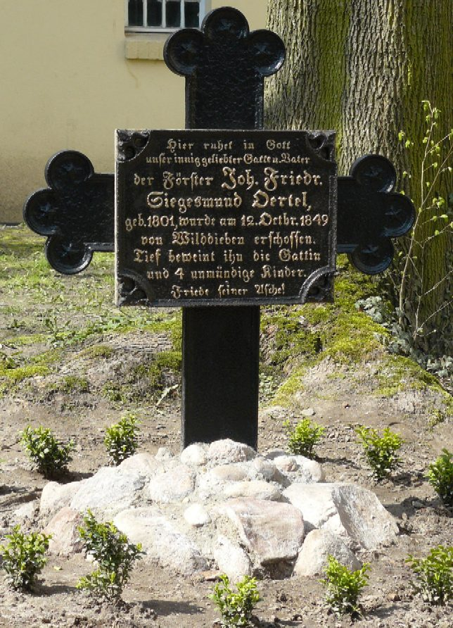 Ironcross in Stolpe, district Oberhavel, Brandenburg, Germany